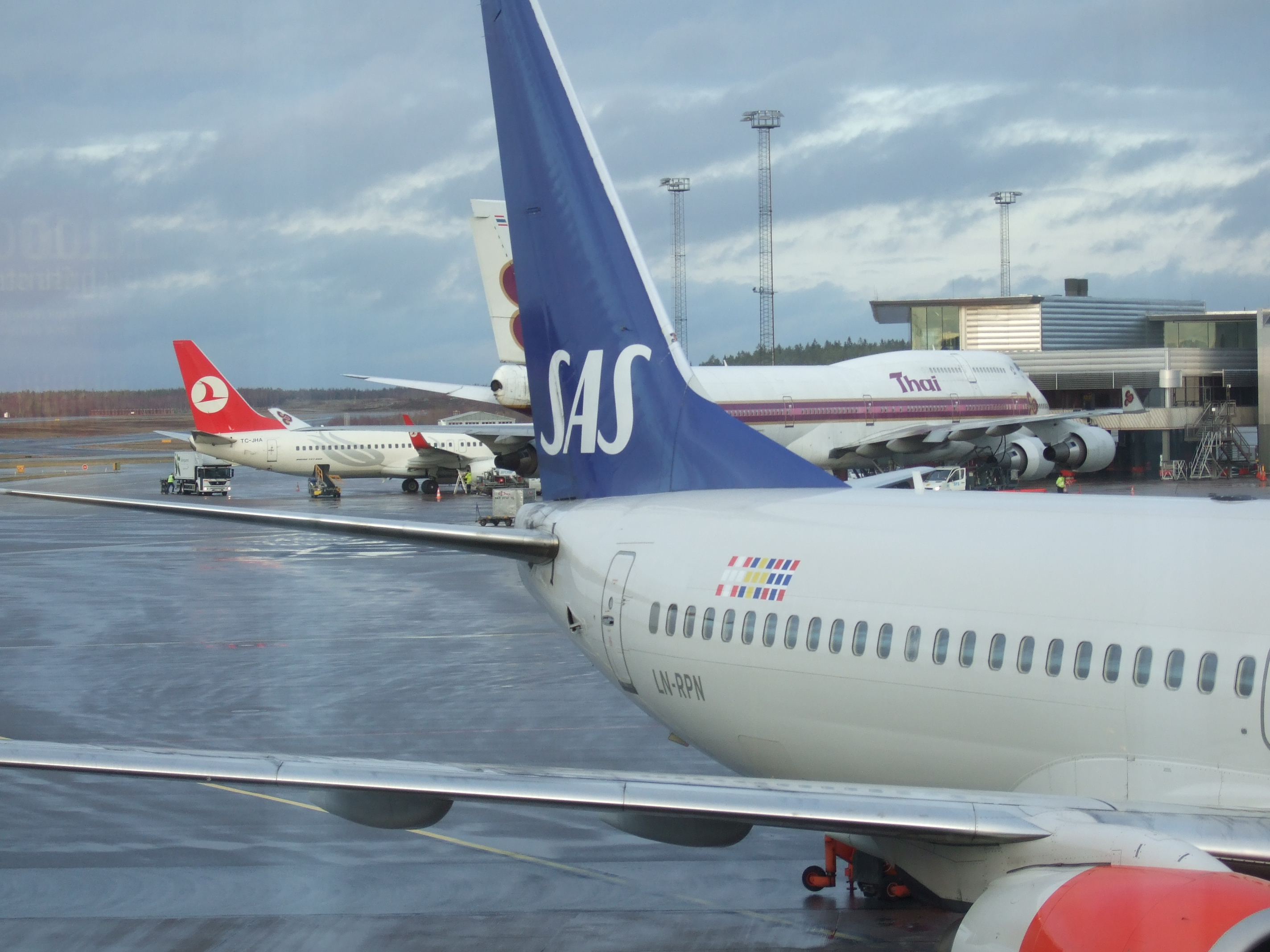 Three aeroplanes parked at the Stockholm-Arlanda Airport in Sweden. From left to right, they are TC-JHA of Turkish Airlines, Thai Airways, and LN-RPN of Scandinavian Airlines (SAS).